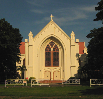 An early morning photograph of the Silliman University Church. Construction for the church began in 1941, but due to interruptions brought by World War II, it was completed only in 1949. The church's origins can be traced to the coming of the American Presbyterian missionaries to the Philippine Islands in 1899, who established the Dumaguete Mission Station in January of 1901. Prior to its construction, members of the congregation held church services at the first floor of present-day Silliman Hall.